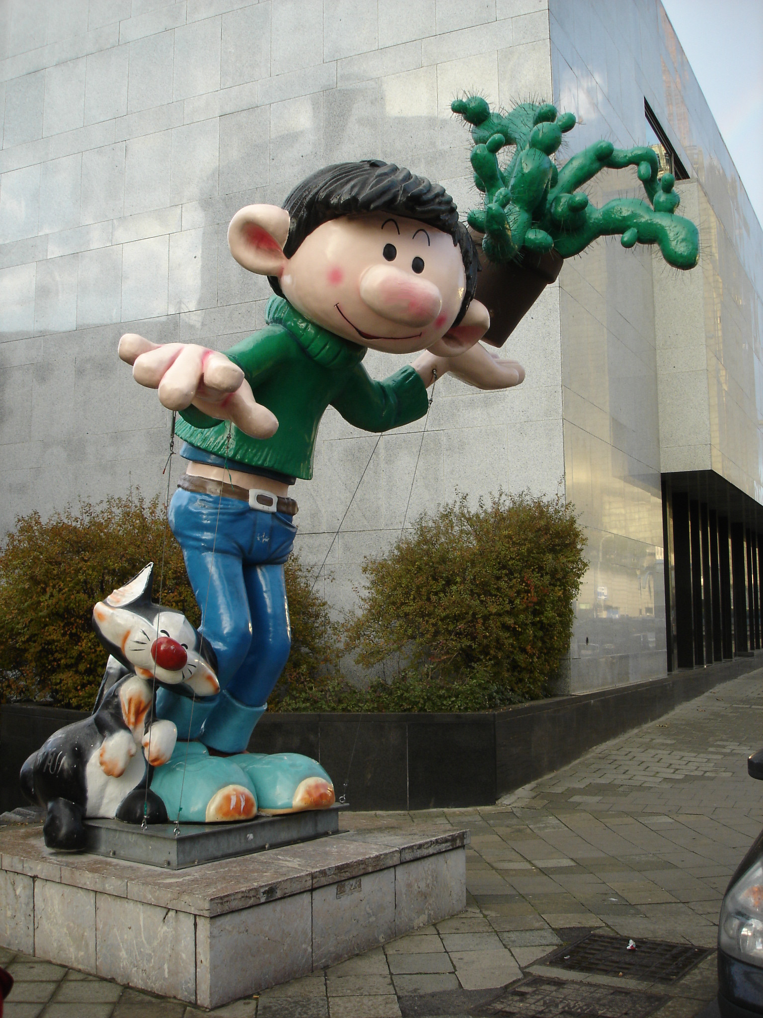 A statue of the fictional character Gaston Lagaffe, Rue des Sables, Bruxelles.